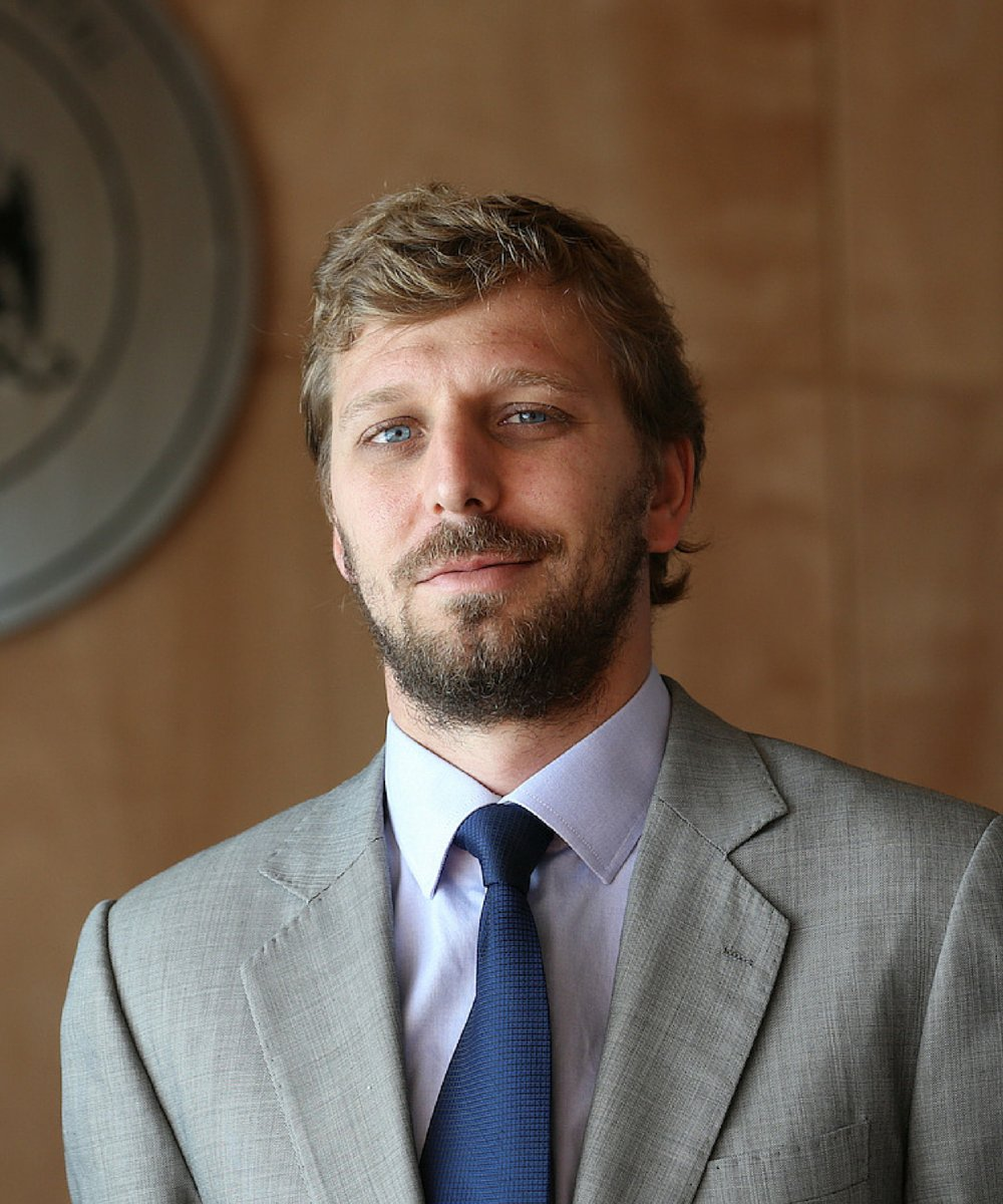 Official photo of Felipe Riesco Eyzaguirre as Undersecretary of the Environment in 2018